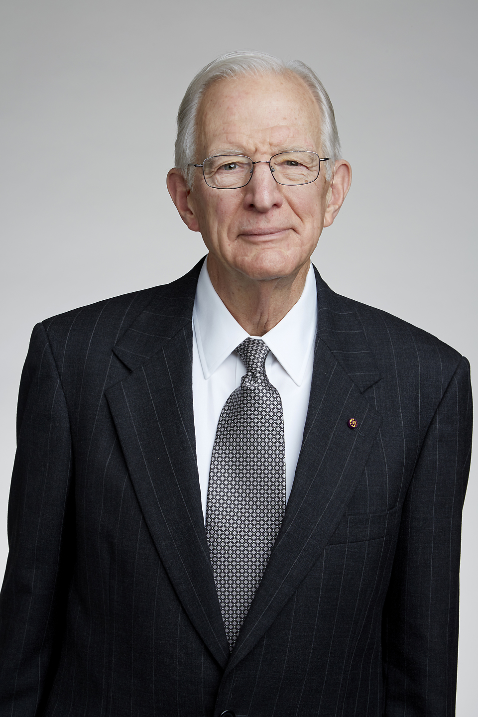 John Michael Hayes (born 6 September 1940) ForMemRS is a scientist emeritus at Woods Hole Oceanographic Institution in Woods Hole, Massachusetts. Attribution: The Royal Society